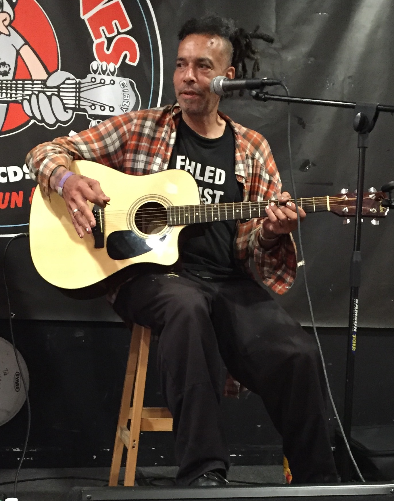 Chuck Mosley performing at Looney Tunes Records in Babylon, NY, on July 18, 2016.